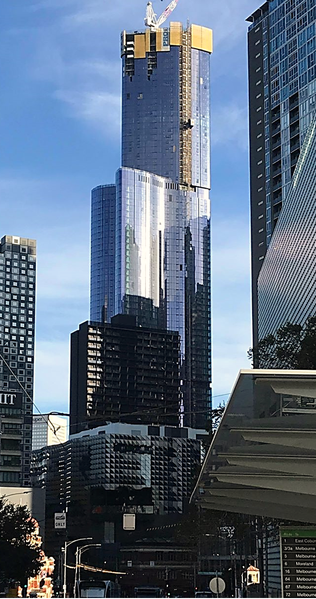 Aurora Melbourne Central, the tallest building in Melbourne's city centre, topped-out in April 2019.